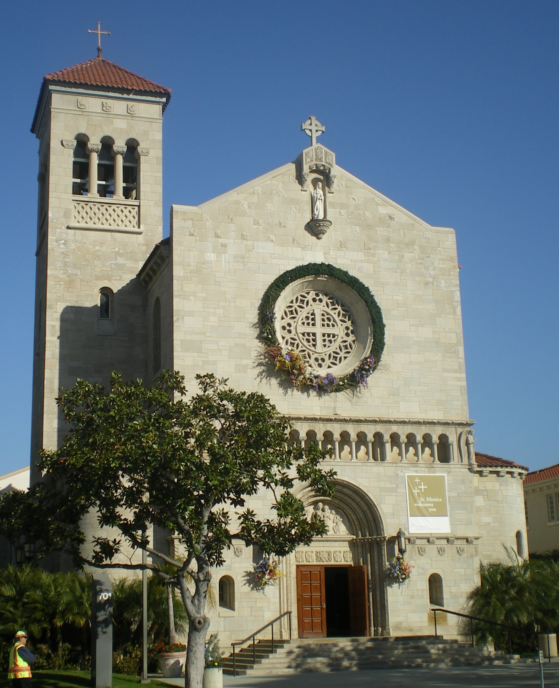 Saint Monica Catholic Church (Santa Monica, California, USA)